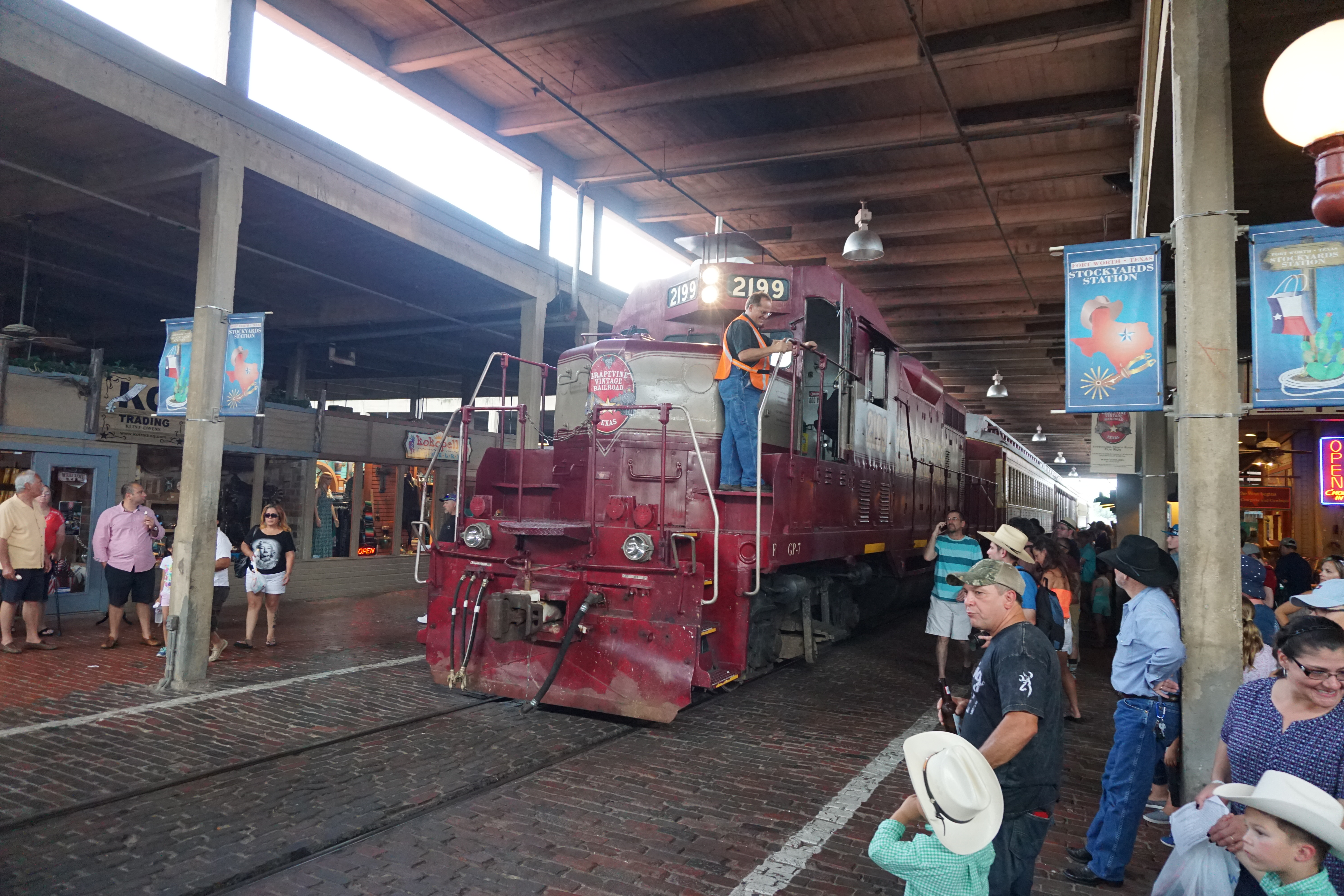 A Grapevine Vintage Railroad train at Stockyards Station in the Fort Worth Stockyards in Fort Worth, Texas (United States).